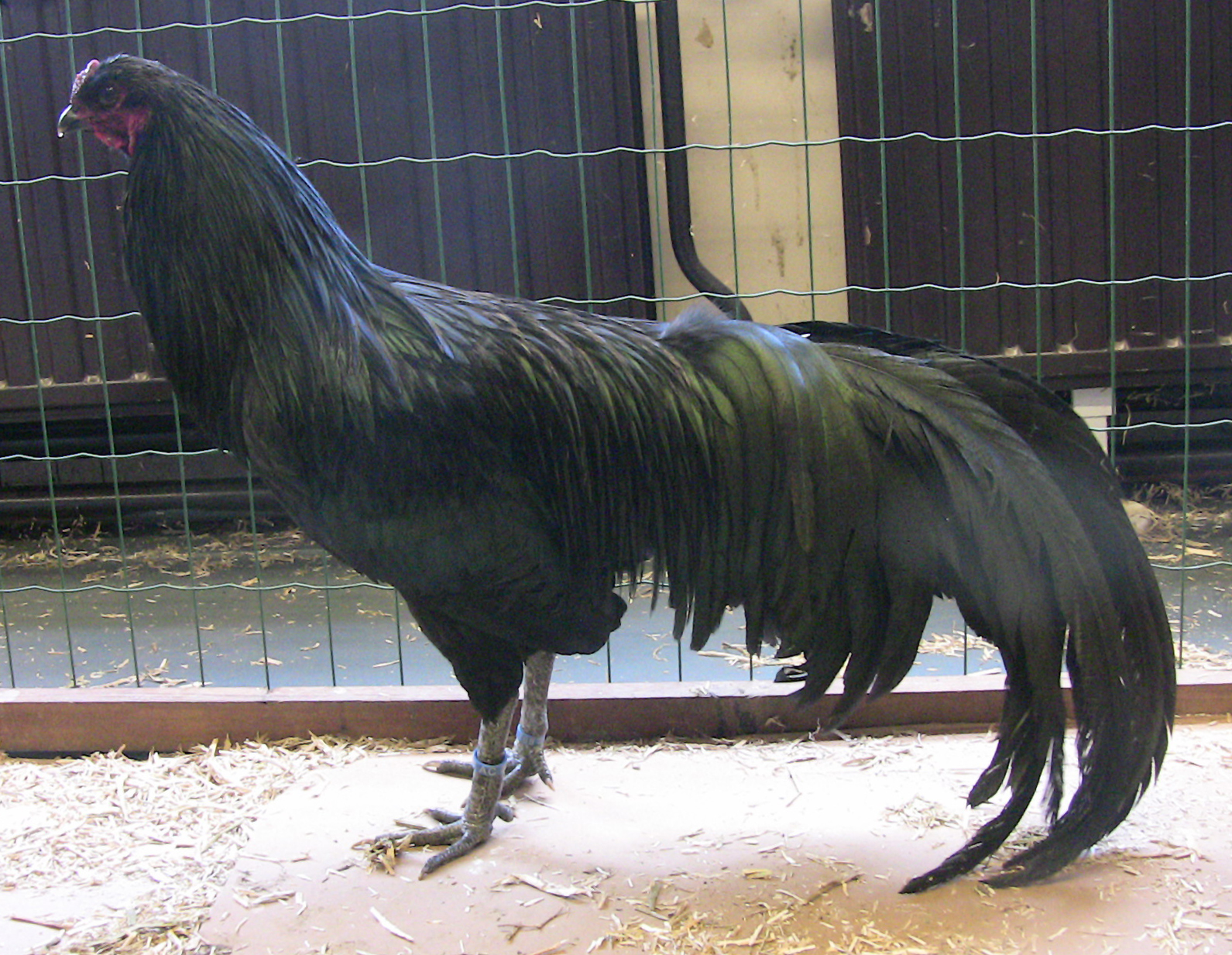 Sumatra cockerel